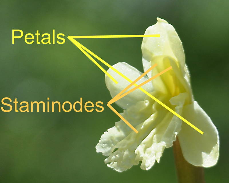 Flower of Roscoea cautleyoides Gagnep. labelled to show petals and staminodes